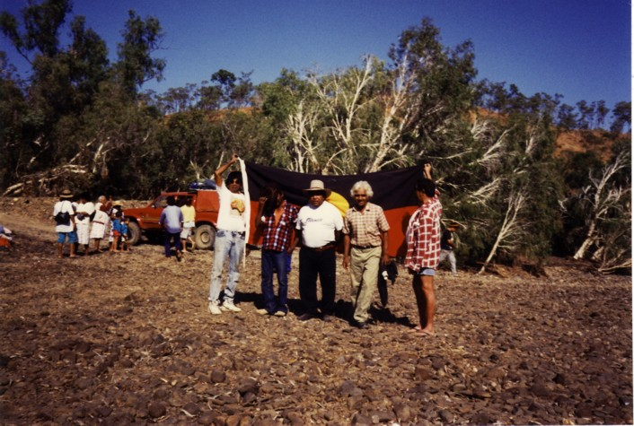 Photo taken of Djunan elders and new executive raising flag, after resolving to regaion ownership of Ngarrrabullgan, 1991